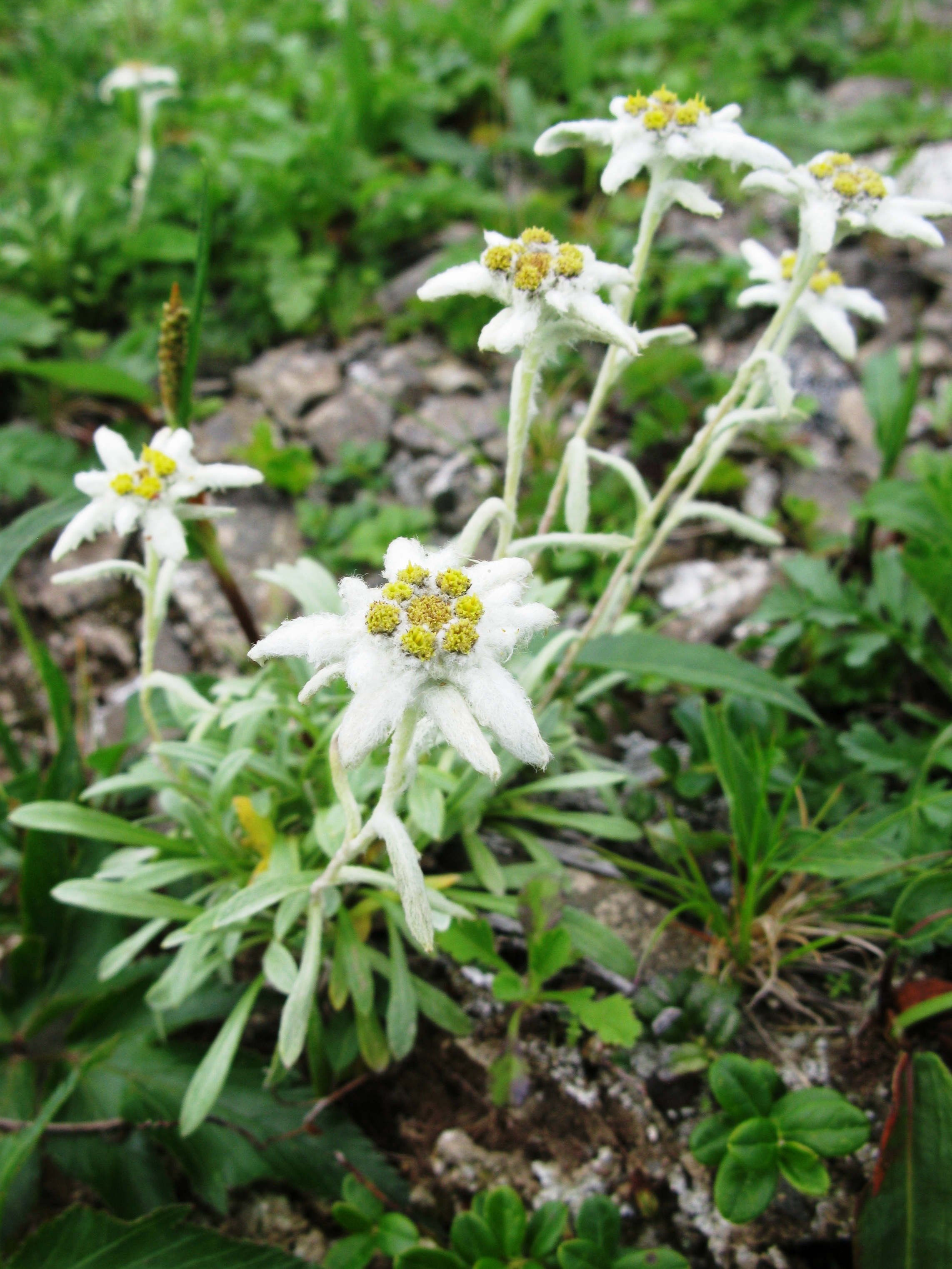 Leontopodium fauriei, Mt. Iide, Fukushima pref., Japan